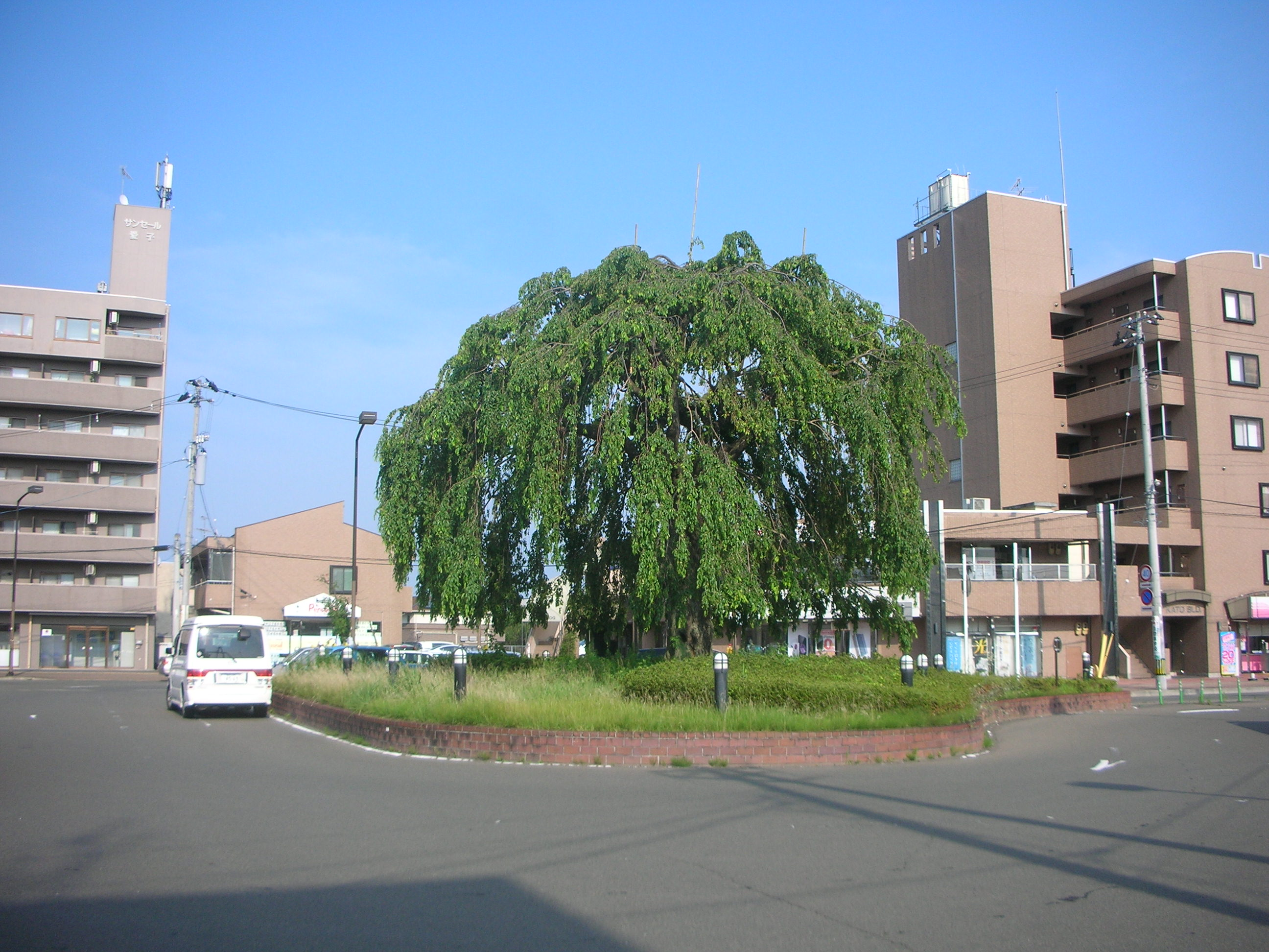 The forecourt in front of Ayashi Station in Aoba-ku, Sendai, Japan